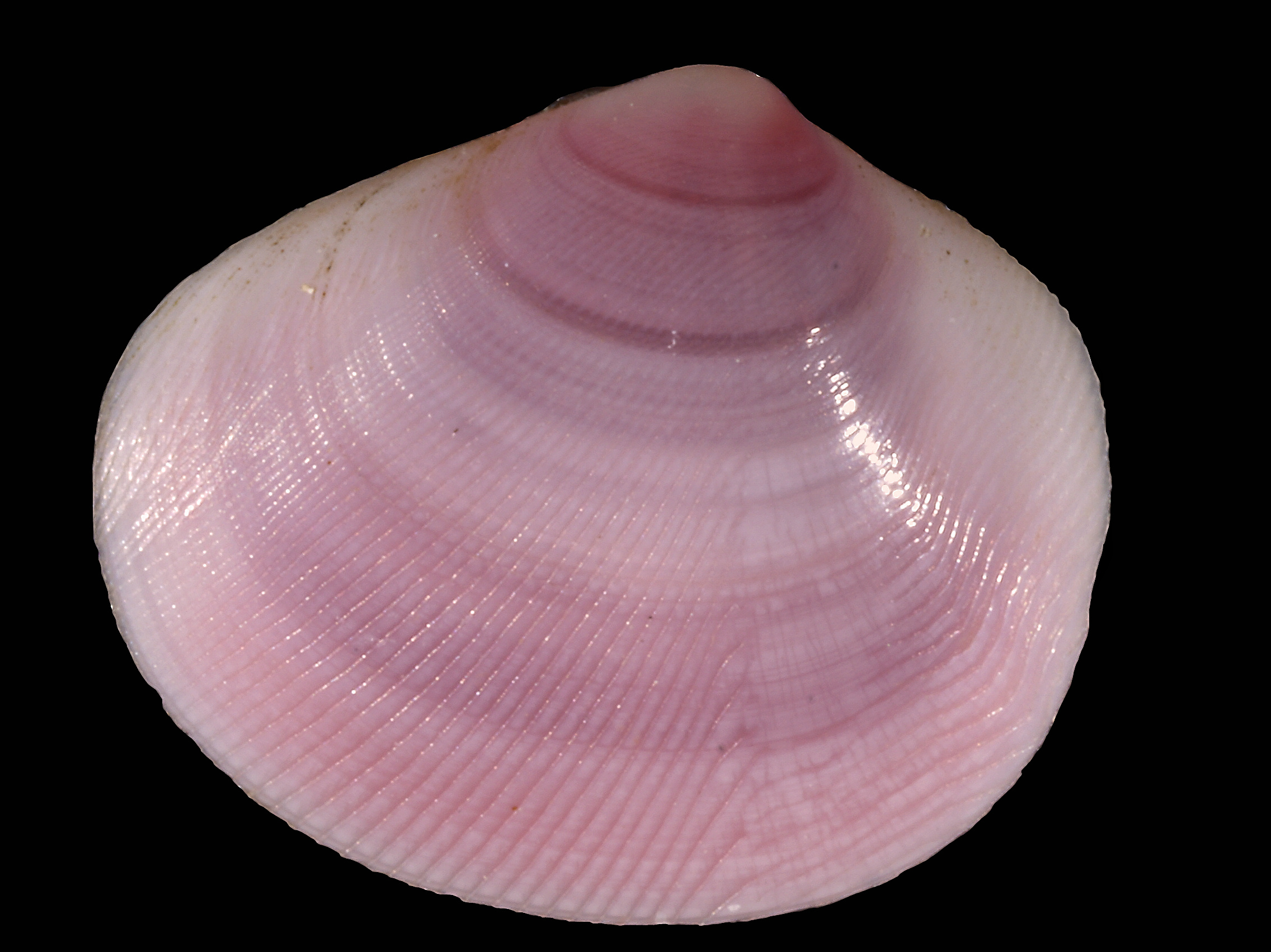 Large strigilla from Pagua Bay, on the Atlantic coast of Dominica (W.I.). Studio image.